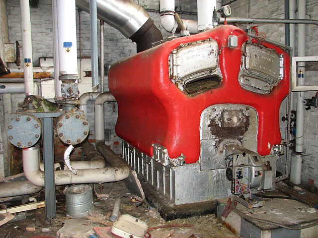 Hales Hospital - the heating compound. A Victorian Beeston boiler that used to provide heating and hot water for the former hospital. This Victorian cast iron low pressure boiler was made by the Beeston Boiler Company. Situated at the lowest point of the heating circuit, often underground, a combination of boiler and pump was able to send heated water considerable distances inside 4" cast iron pipework.